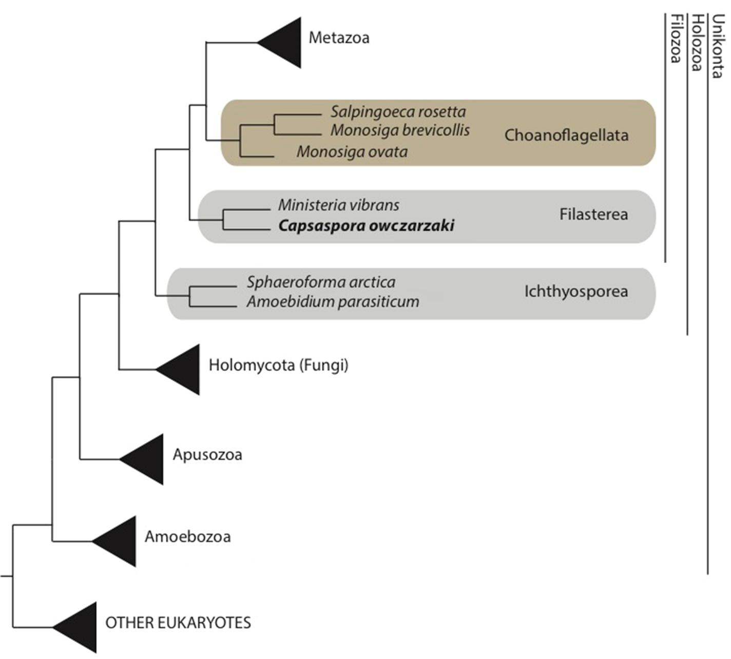 Capsaspora's phylogenetic tree